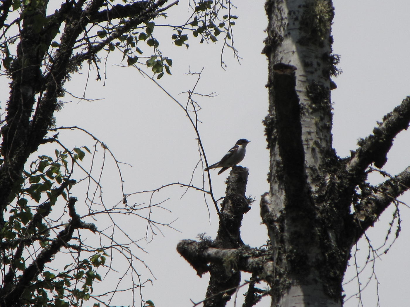 Semicollared flycatcher